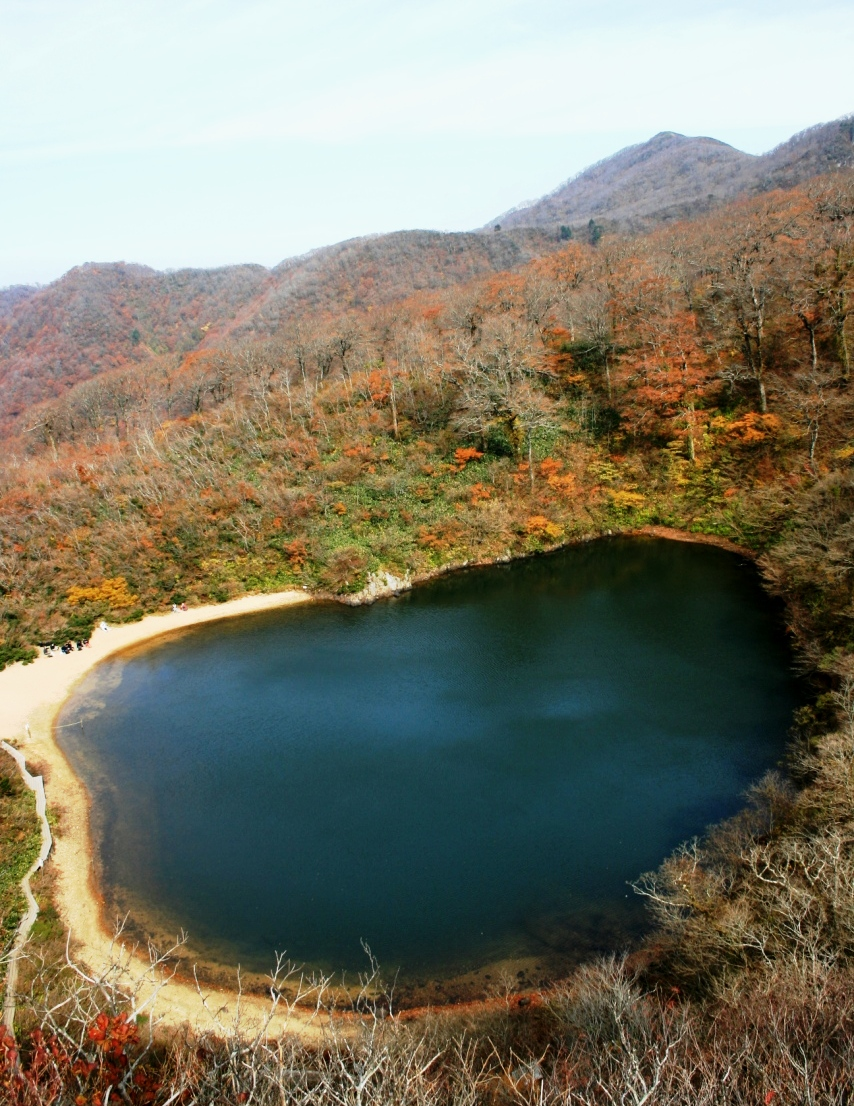 Pond Yasyagaike, in Minamiechizen, Fukui pref., Japan